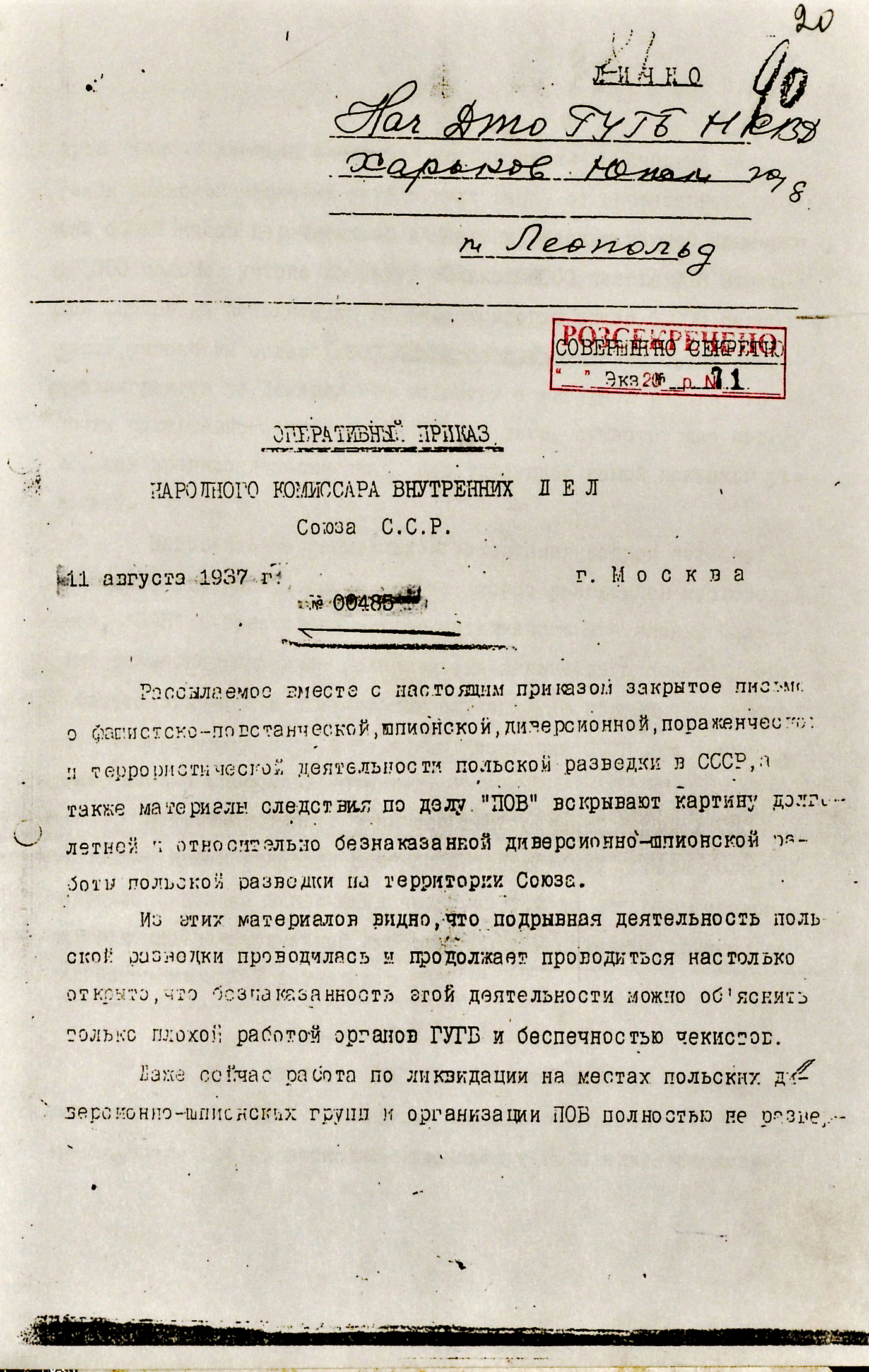 Order No. 00485 formally starting the so-called Polish operation. A copy from the Kharkov branch of NKVD's Main Directorate of State Security (GUGB). Signature: Security Service of Ukraine's Secret Archives, F. 16, Op. 23-sp, S. 20-24.